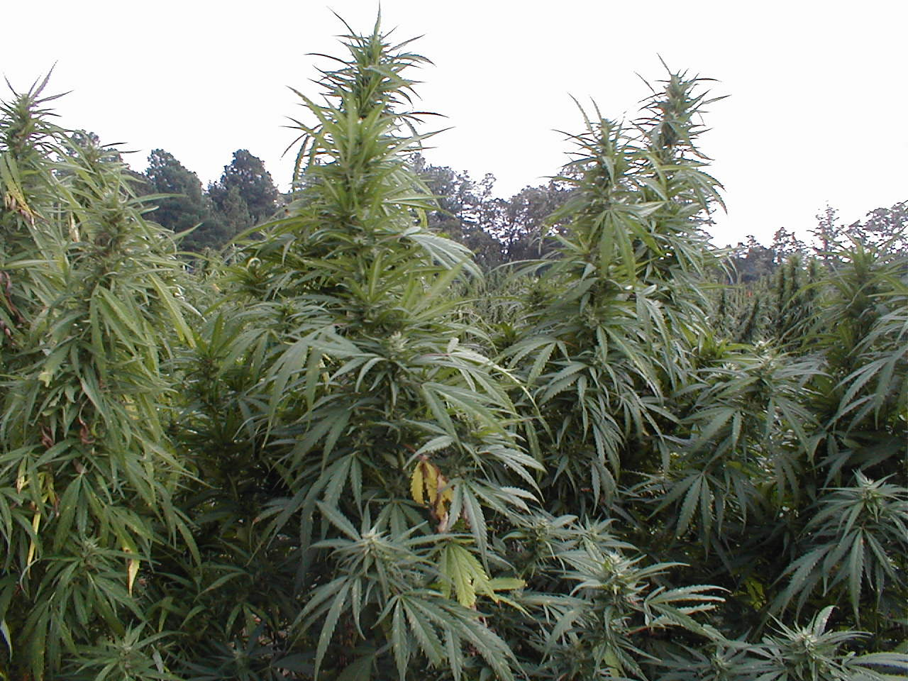 U.S. Government medical marijuana crop at the University of Mississippi in Oxford, Mississippi ( Source:Forever In the Public Domain. (if you love something, set it Free)")